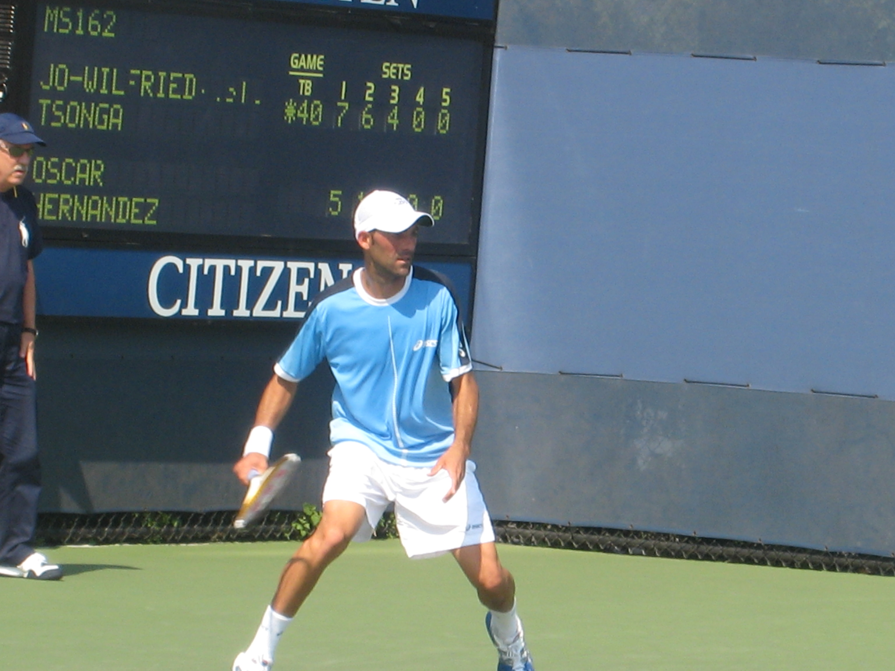 Oscar Hernandez taken by the uploader at the en:2007 U.S. Open. He lost to Jo-Wilfried Tsonga here[1].